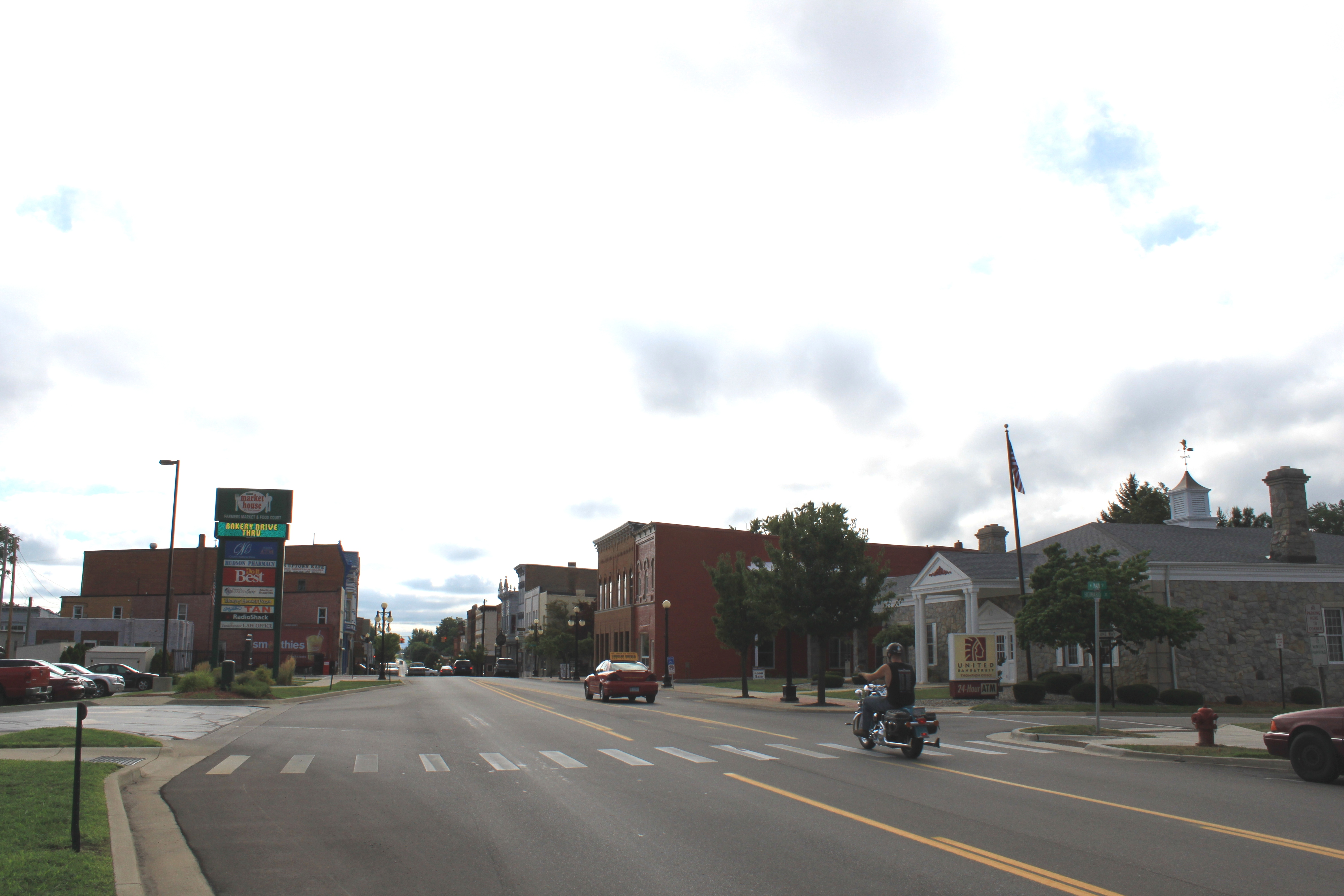 Main Street (M-34), Hudson, Michigan, facing east.